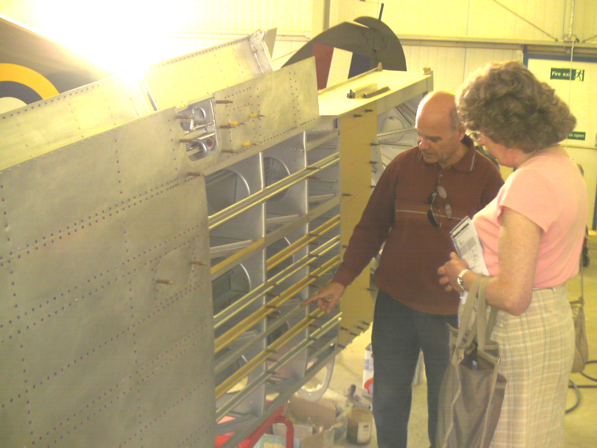 Malta Aviation Museum curator Anthony Spiteri showing restoration work on their Hawker Hurricane to a lady visitor